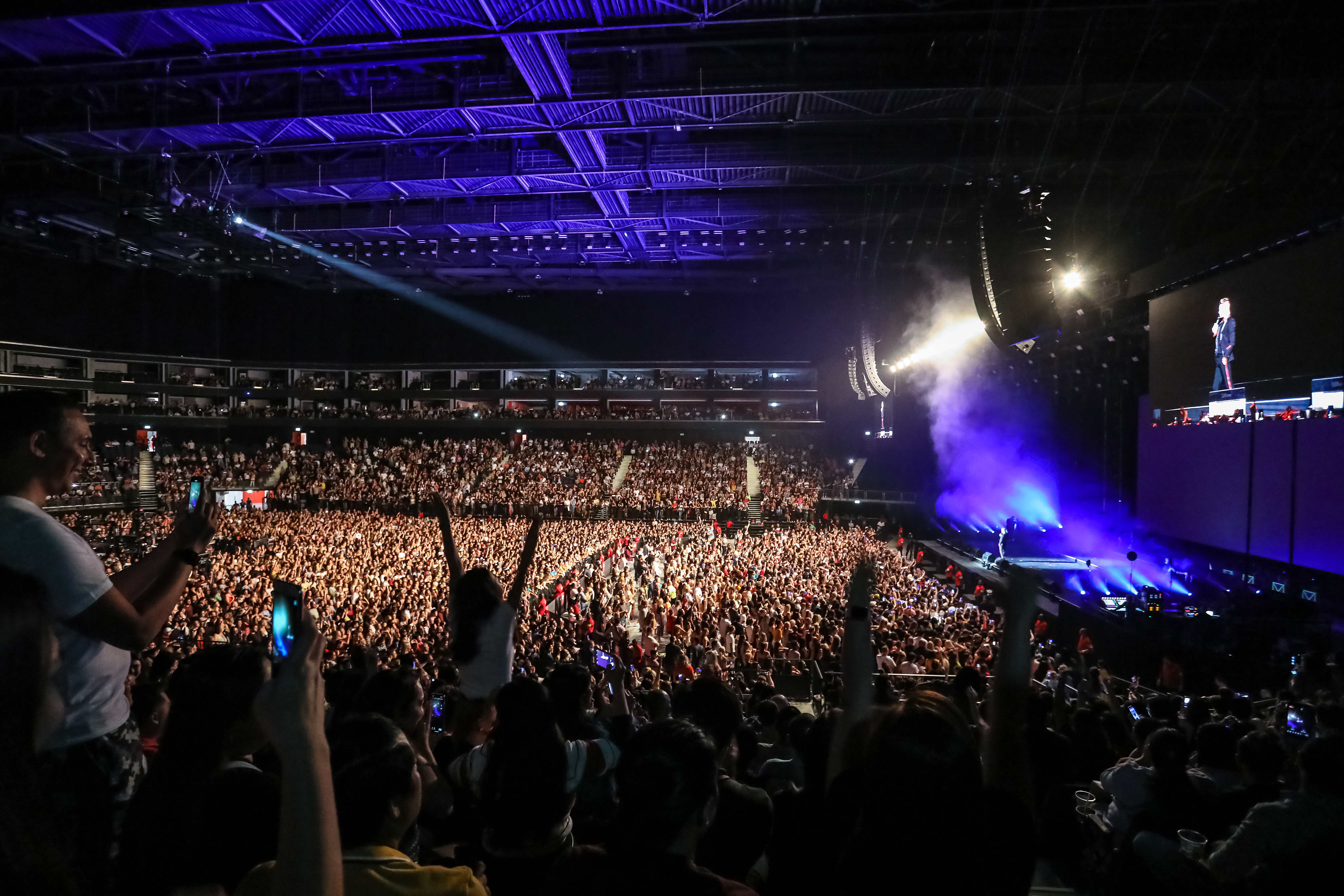 Westlife at Coca-Cola Arena - 1